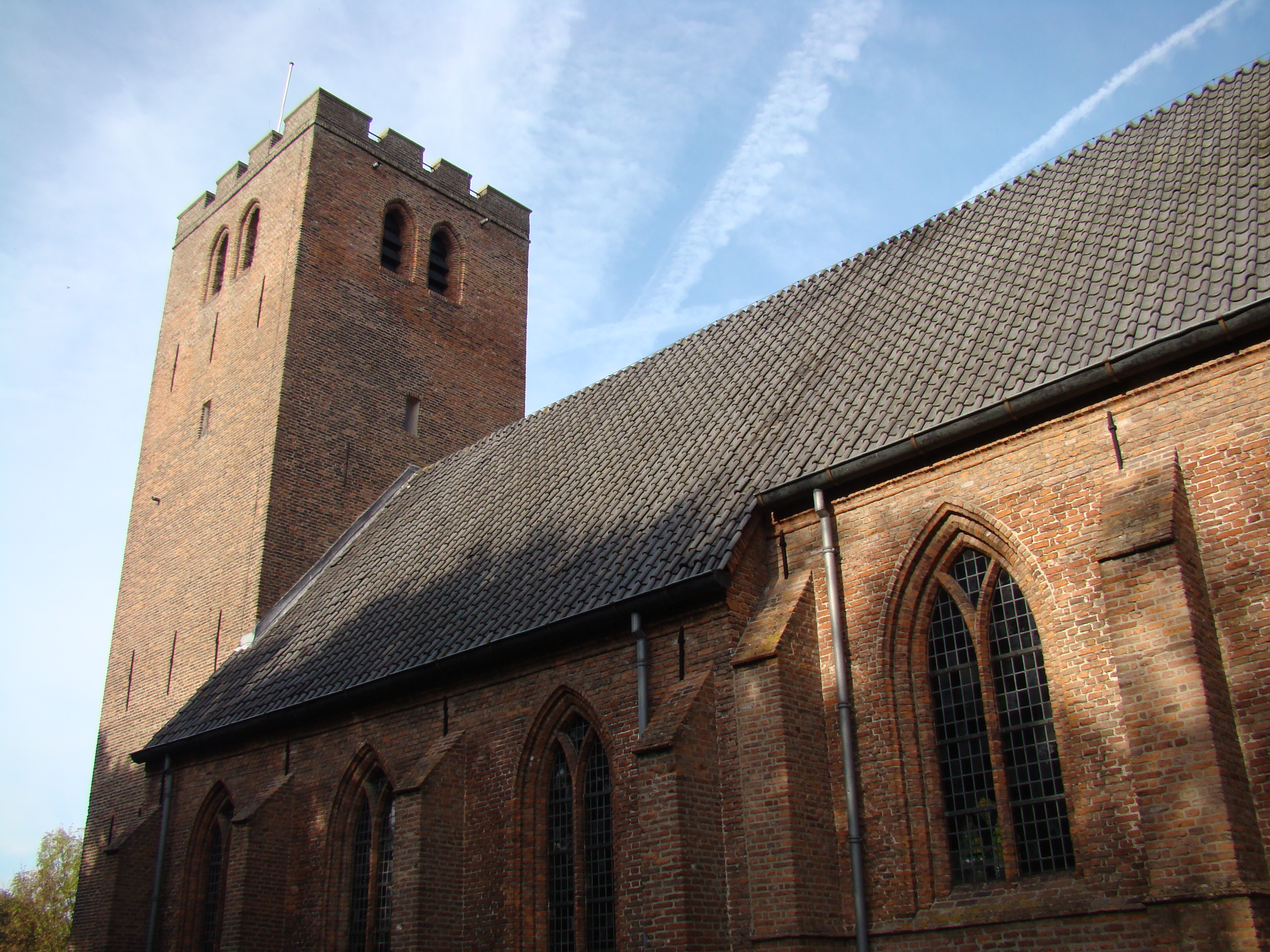 Church at Muiderberg, Netherlands